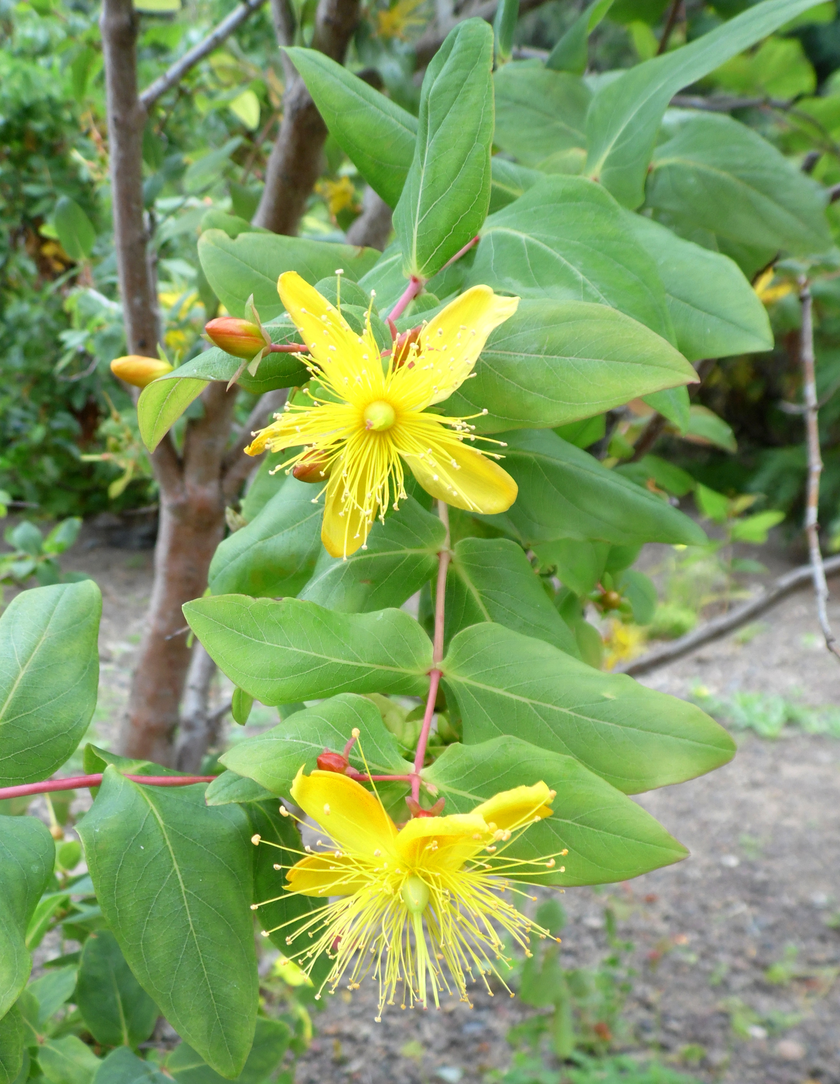 Hypericum grandifolium in Jardín Botánico Canario Viera y Clavijo